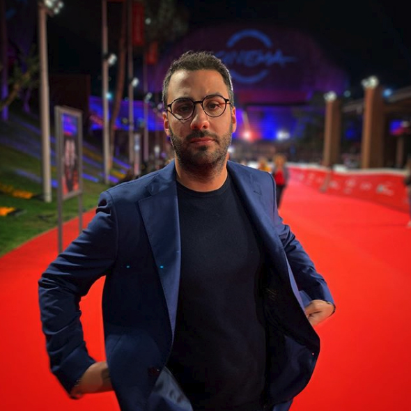 Giovanni B. Algieri on the red carpet at Festa Del Cinema di Roma (2018)